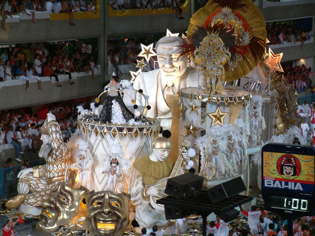 Rio Carnival 2003 Photo: Andrei Snitko